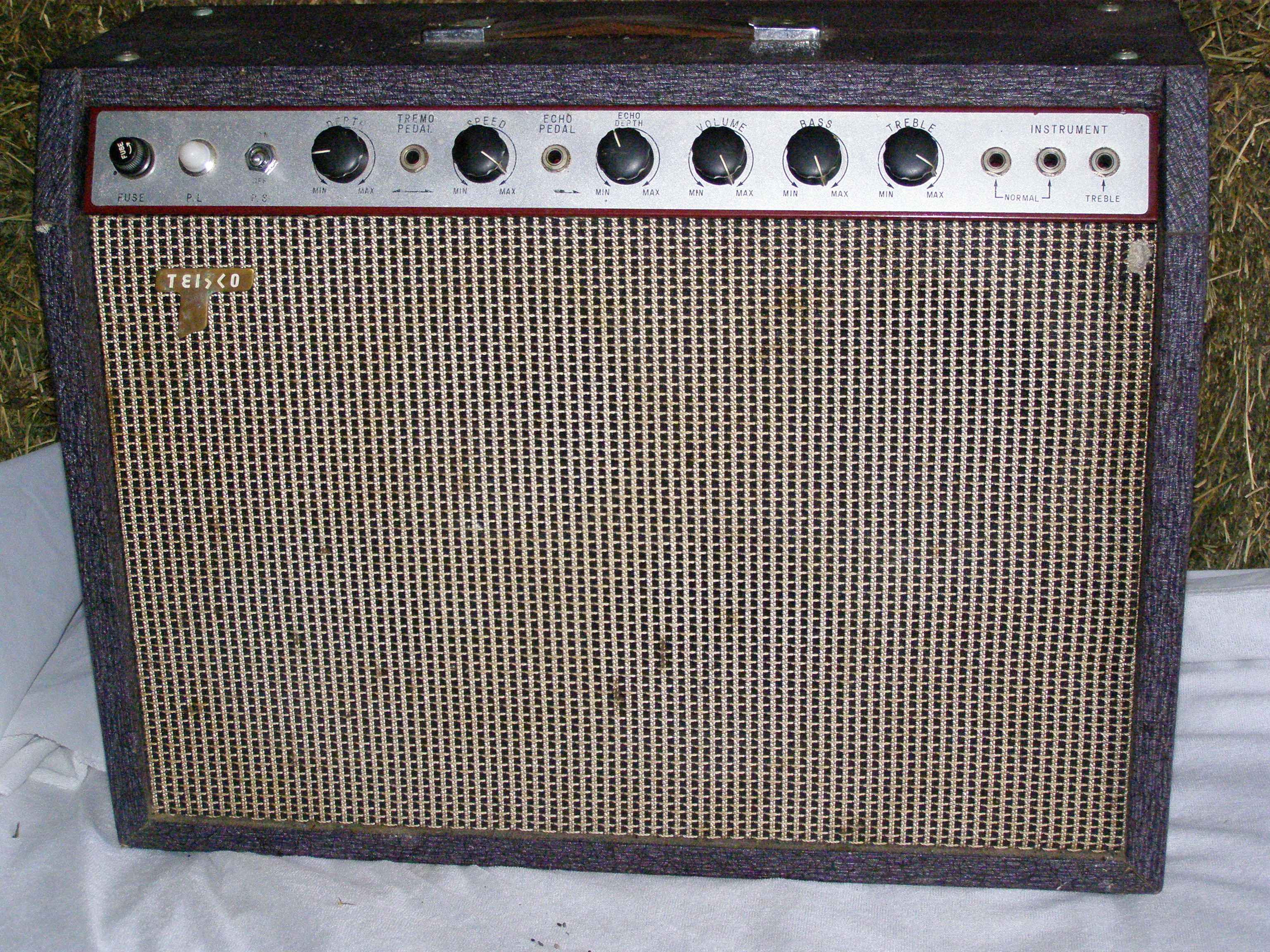 Teisco 74 R Amplifier, this antique amp has been in storage for the past 20 years or so!